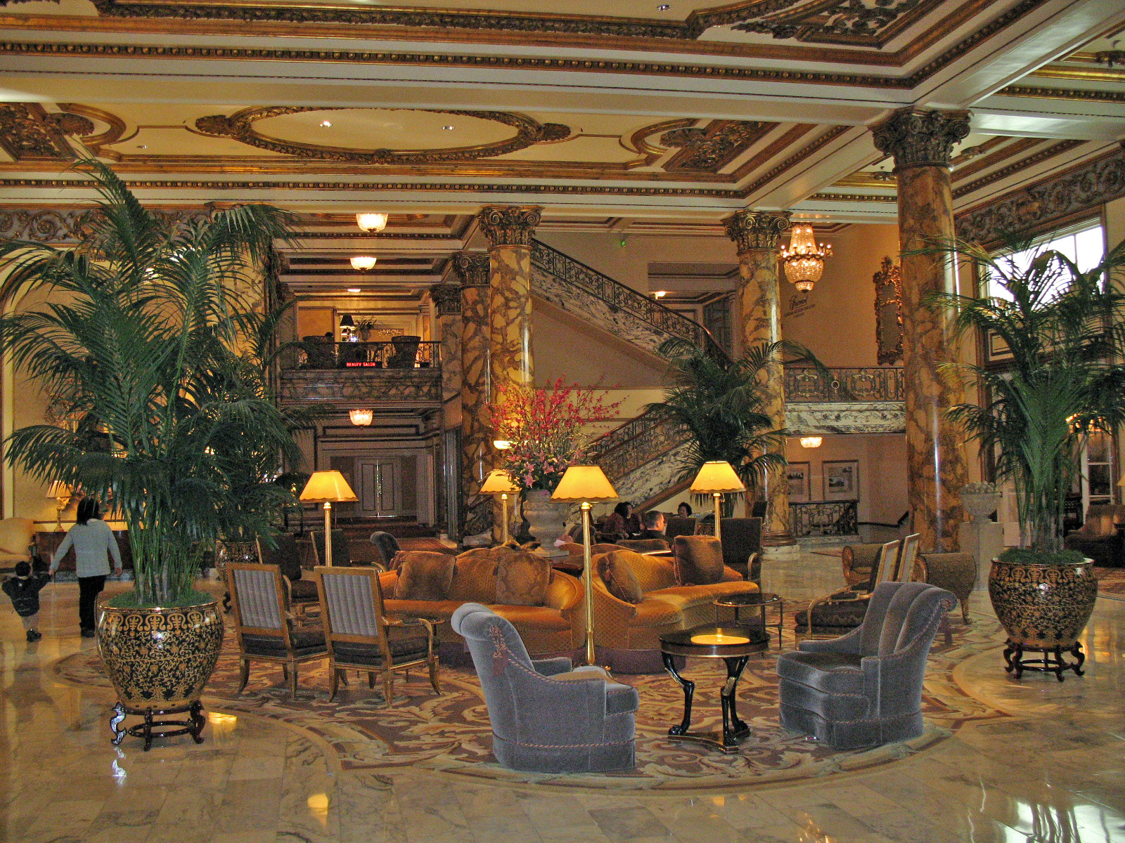 National Register of Historic Places in San Francisco, California. Lobby of Fairmont Hotel, 950 Mason St., San Francisco, California, USA. Photographed March 1, 2008 by Mike Hofmann from south end of lobby.